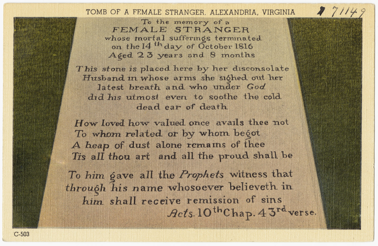 Tomb of a female stranger, Alexandria, Virginia